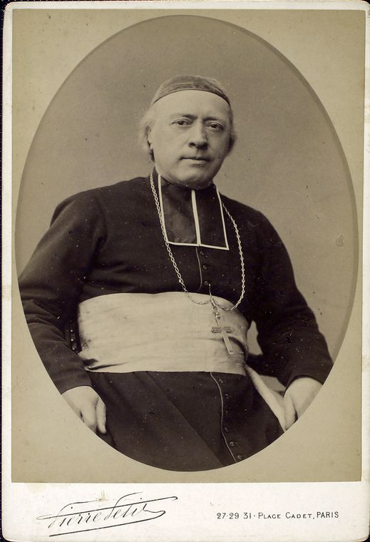 The french bishop Charles-Émile Freppel (1827-1891)